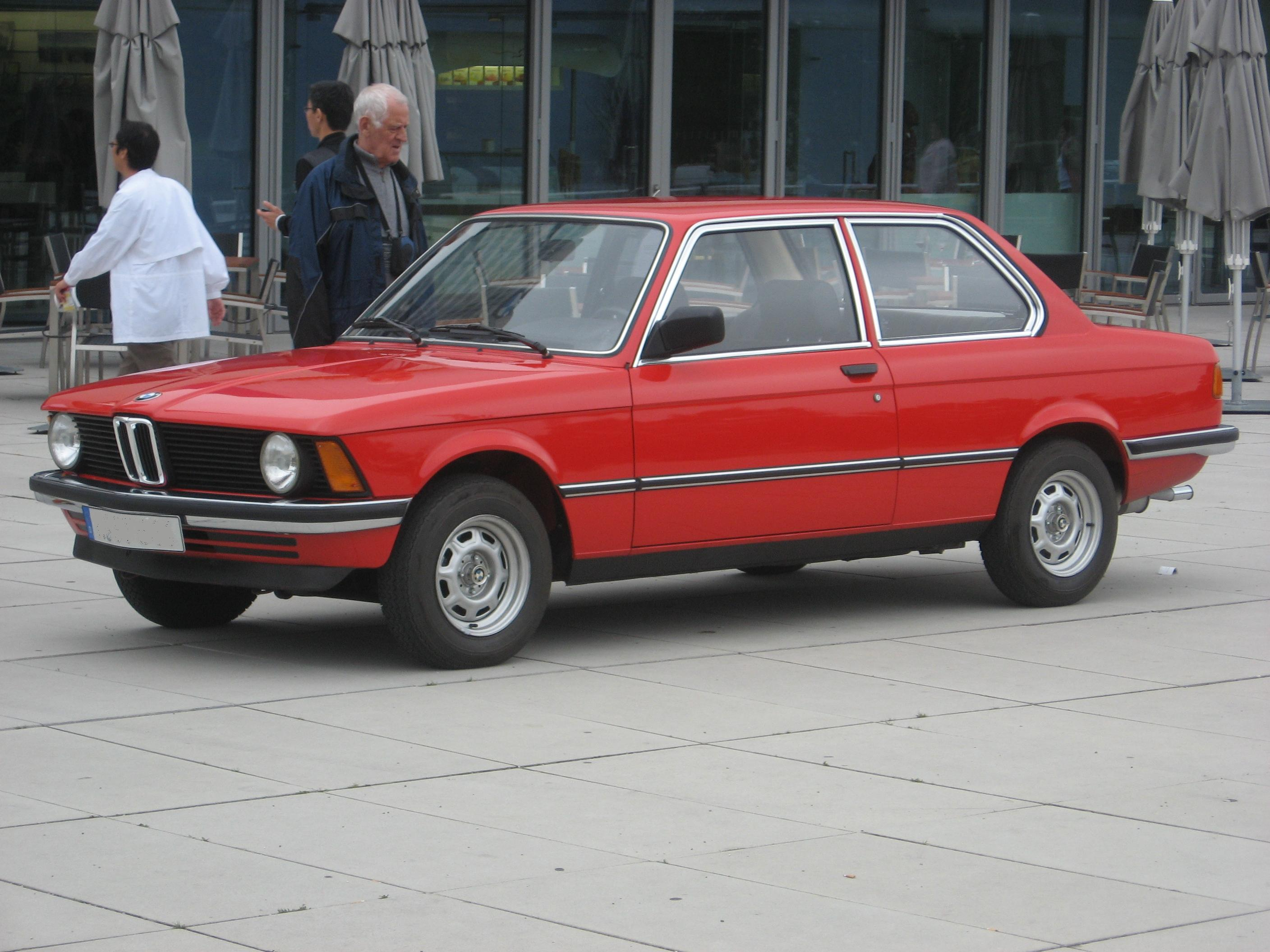 Subject: BMW 316 E21 Date:June 11th, 2011 Event: BMW Museum Place/Country: Munich, Germany I release all rights in the public domain.